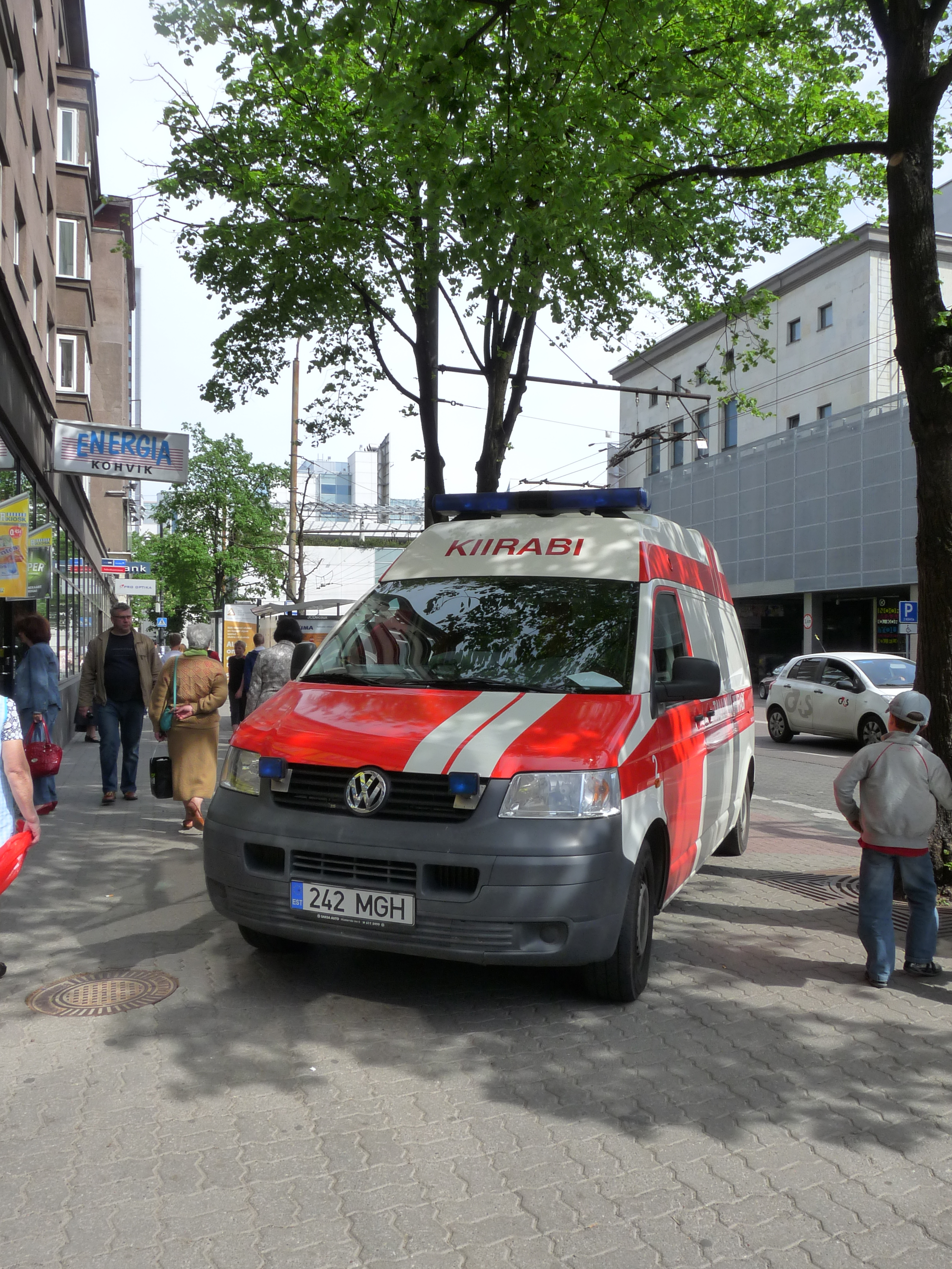 Ambulance in Tallinn, Estonia